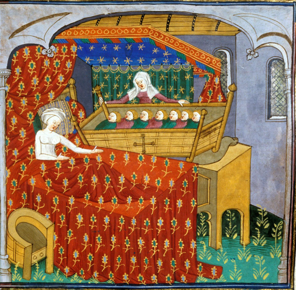 Illumination showing the interior of a bed chamber. A woman, the new mother (Beatrix) is sitting up in bed gesturing toward an immense cradle containing her seven infants (the swan children). The cradle is being held from behing by a second woman (her mother-in-law, Matabrune). Detail from a miniature from the Talbot Shrewsbury Book, illustrating the Swan-Knight story (the Birth of the Knight of the Swan / la Naissance du chevalier au cygne)